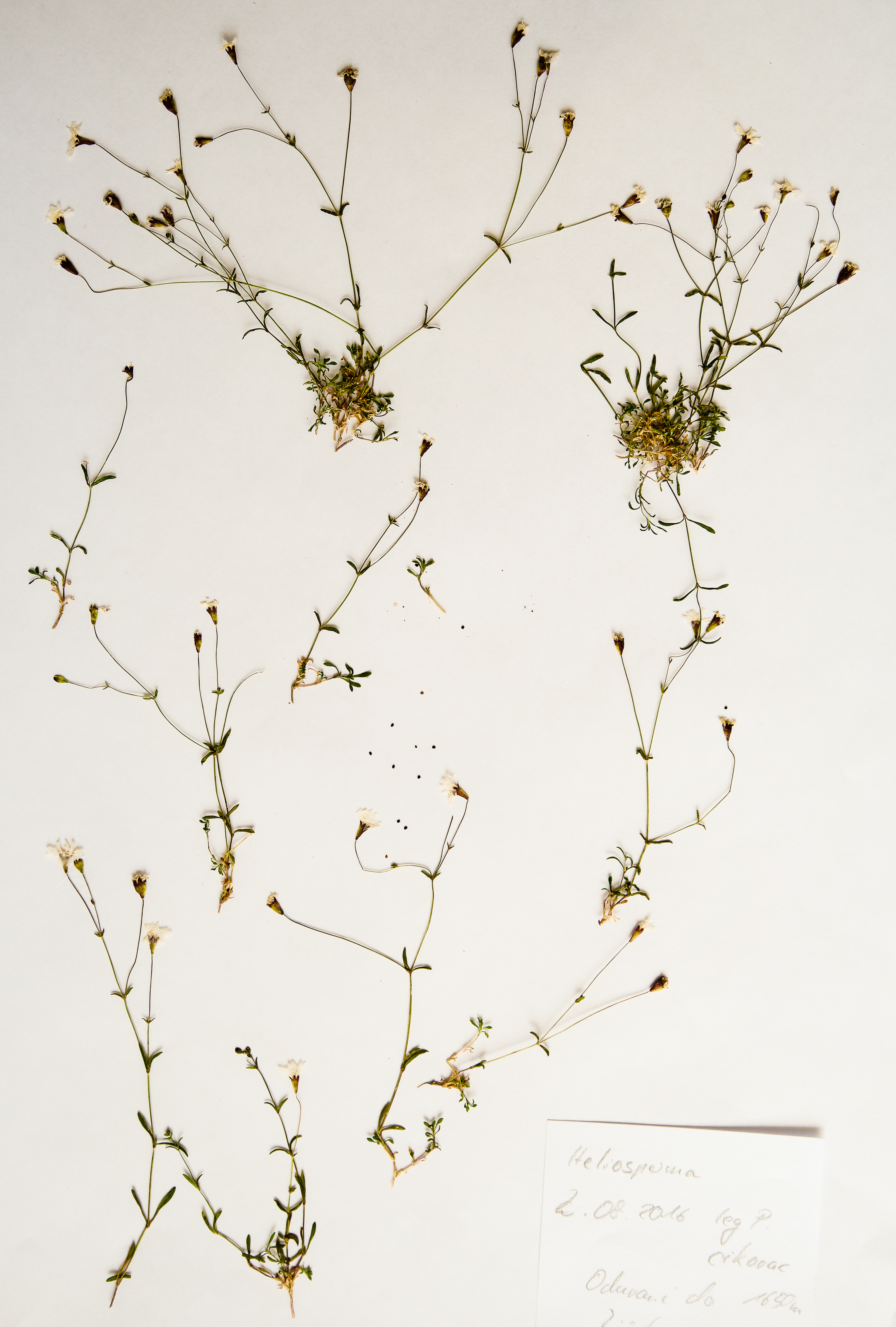 Heliosperma monachorum Bijela gora